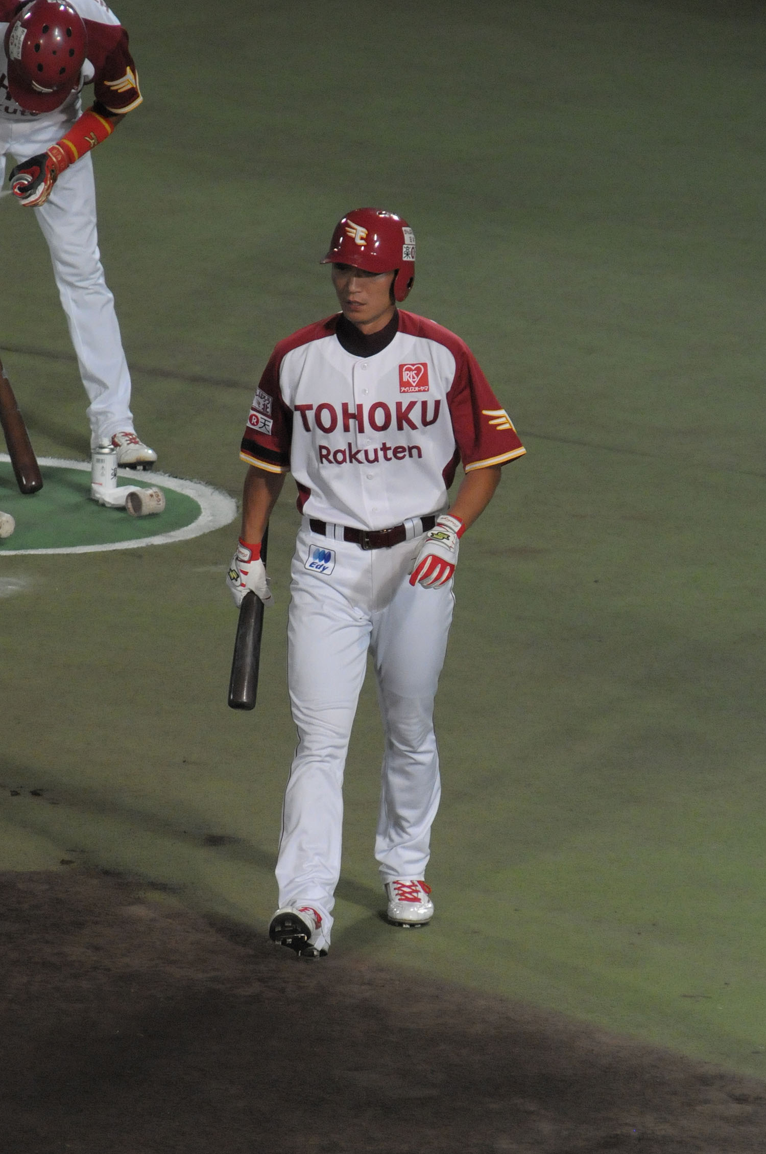 Toshiya Nakashima, outfielder of the Tohoku Rakuten Golden Eagles, at Akita Prefectural Baseball Stadium.